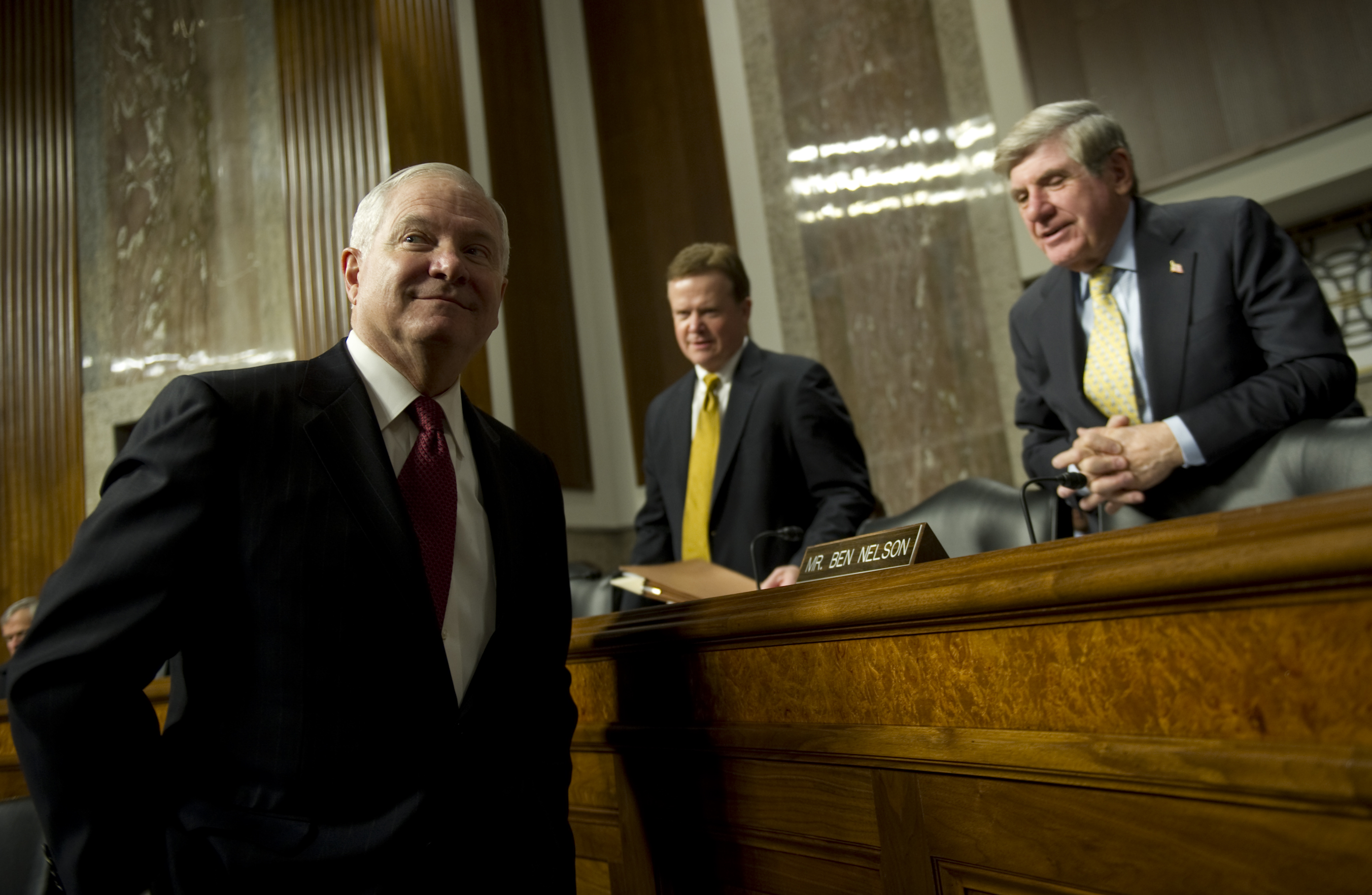 Secretary of Defense Robert M. Gates speaks with Sentaors Jim Webb and Ben Nelson prior to a hearing on the new Strategic Arms Reduction Treaty (START) and implications for national security programs on June 17, 2010 at Dirksen Senate Office Building before the Senate Armed Services Committee in Washington, D.C.